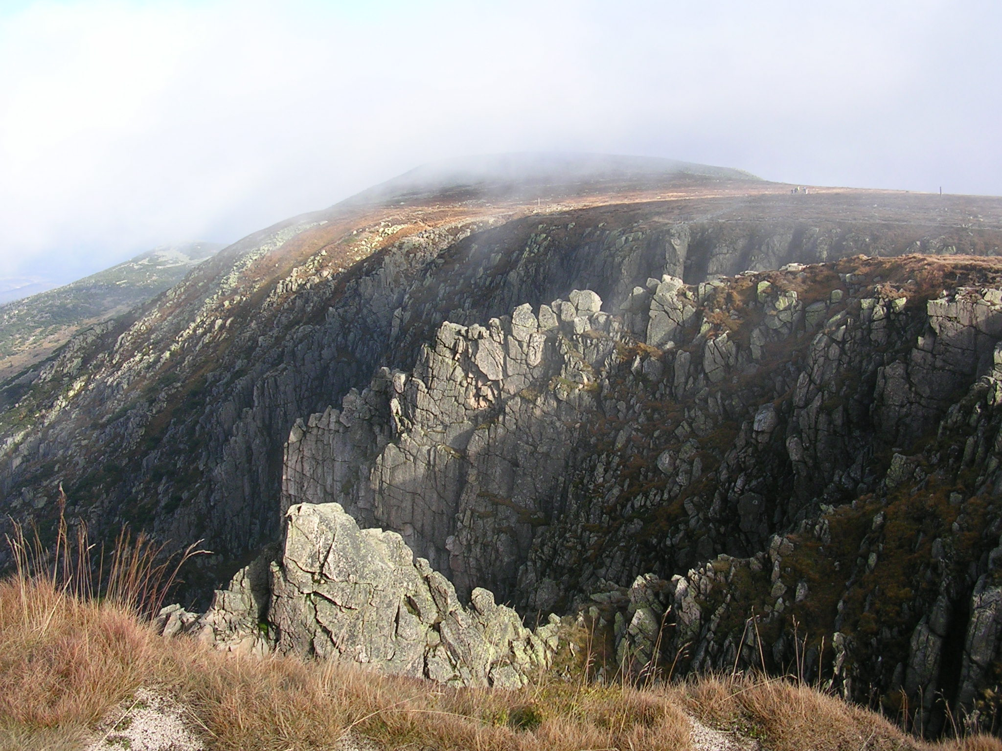 Śnieżne Kotły, Krkonoše Mountains, Poland.